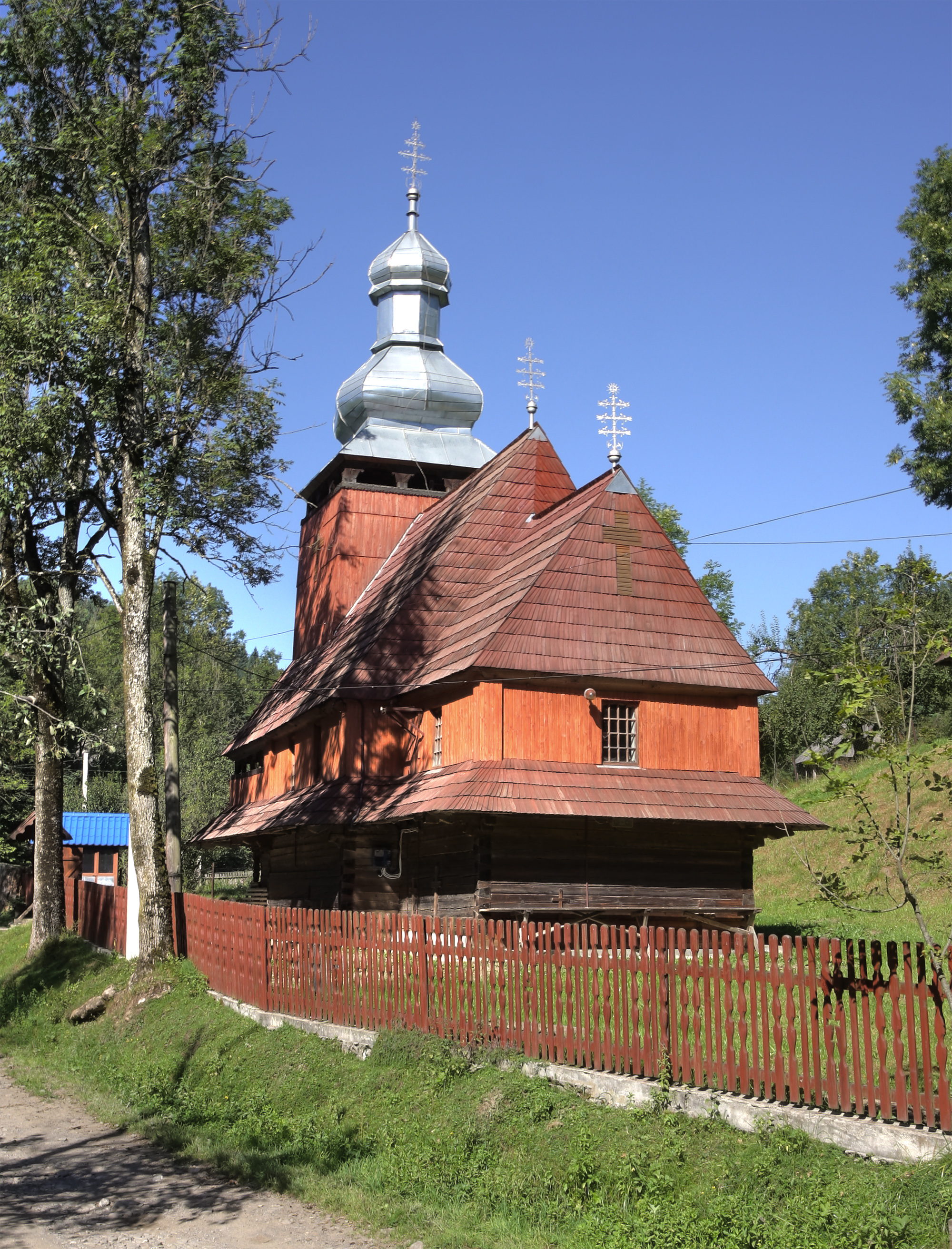 Church Presentation of Mary ("The Entry of the Most Holy Theotokos into the Temple", Bukovets, Mizhhiria Raion, Zakarpattia Oblast, Ukraine. built in 1808